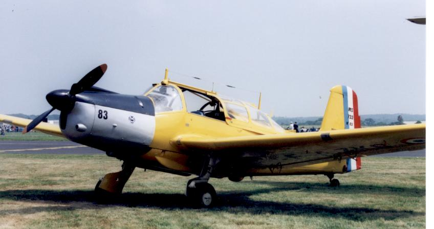 Morane-Sailnier MS-733 Alcyon in markings of the French Air Force (Armee de l'Air)